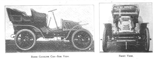 1902 Reber Type IV Model A rear entrance tonneau, made by the Reber Manufacturing Company of Reading, PA. This was the only model offered by Reber which as reorganized as the Acme Motor Car Company in 1904.